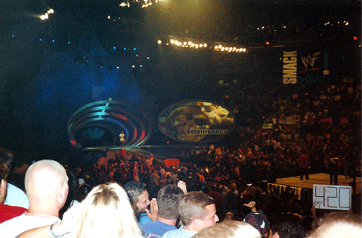 WWF SmackDown! set (1999-2001), Phoenix, AZ